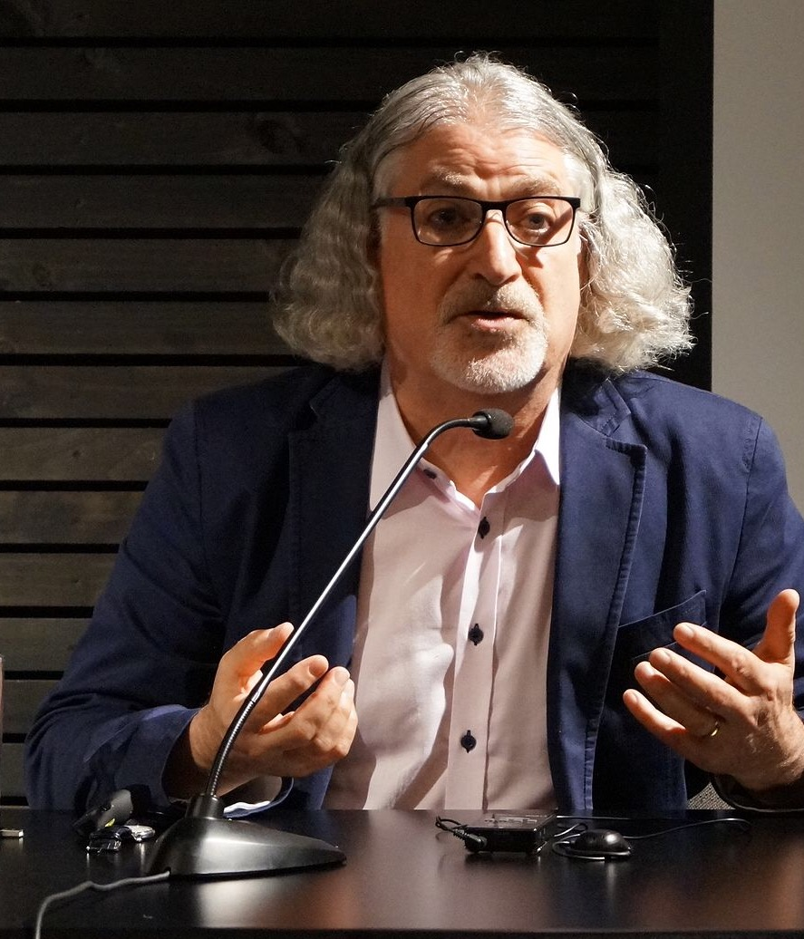 Nikolas Rose (November 18, 2015)